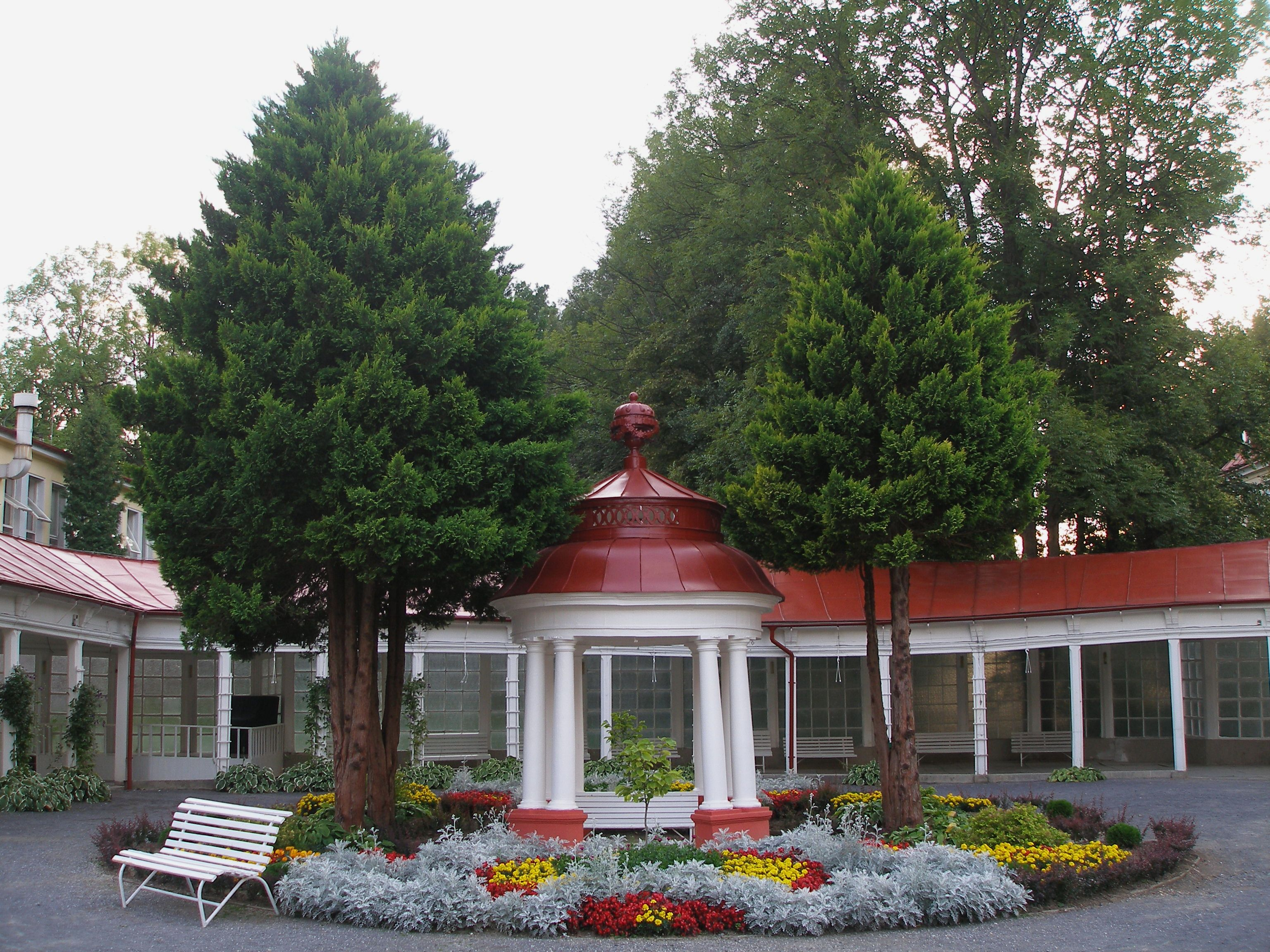 Spa in Lazne Libverda, Czech Republic